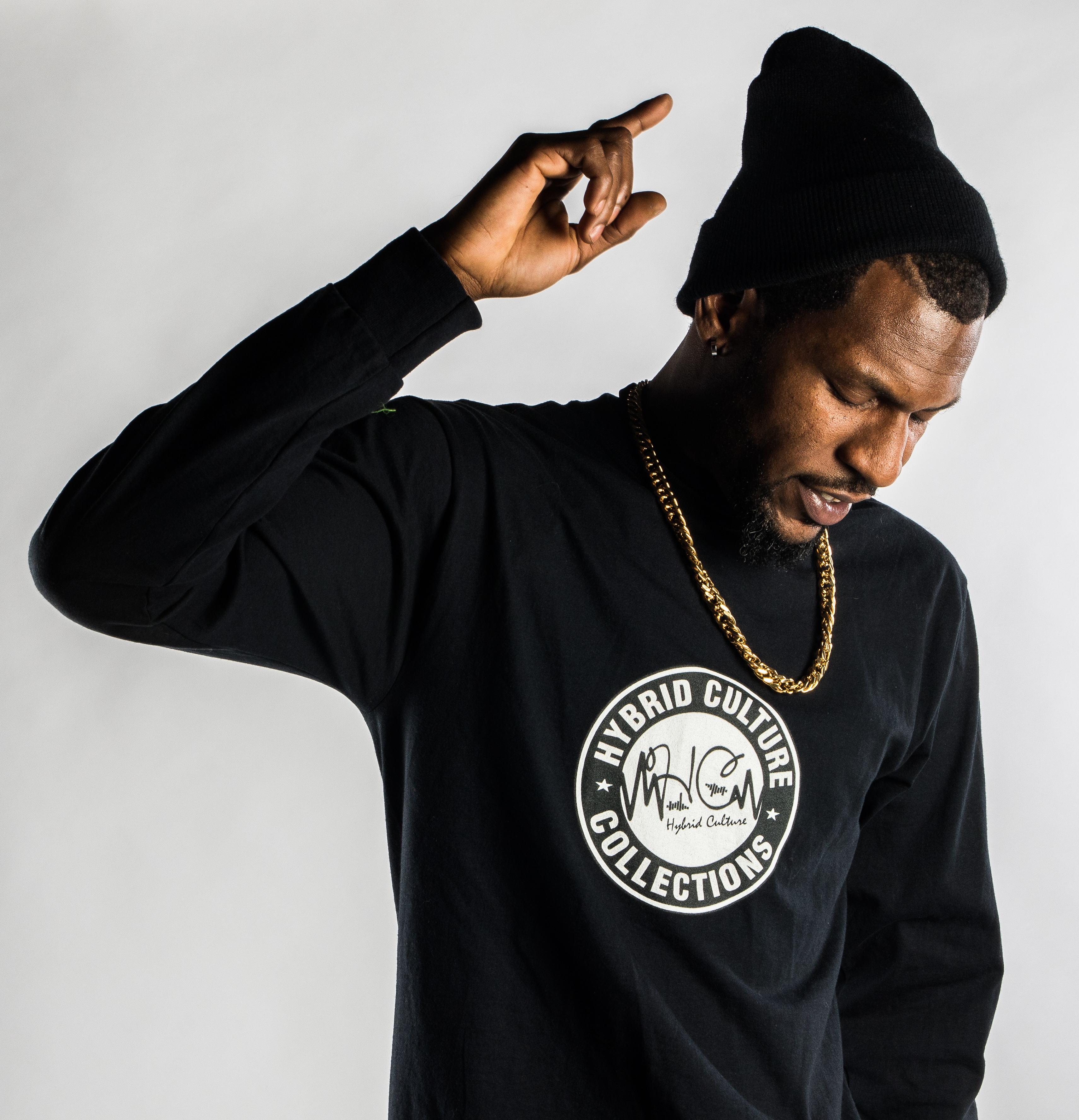 Picture of DeeWunn